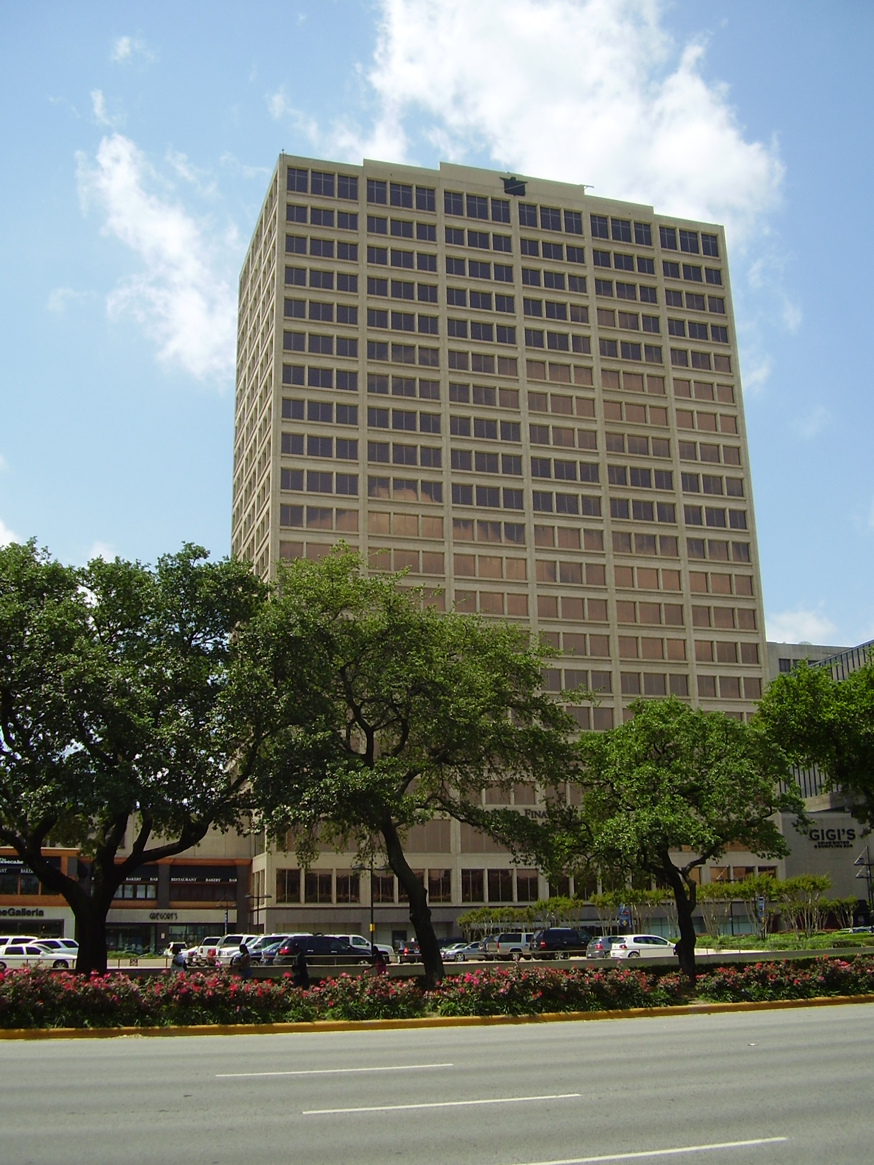 Galleria Tower II, which served as Stanford Financial Group headquarters